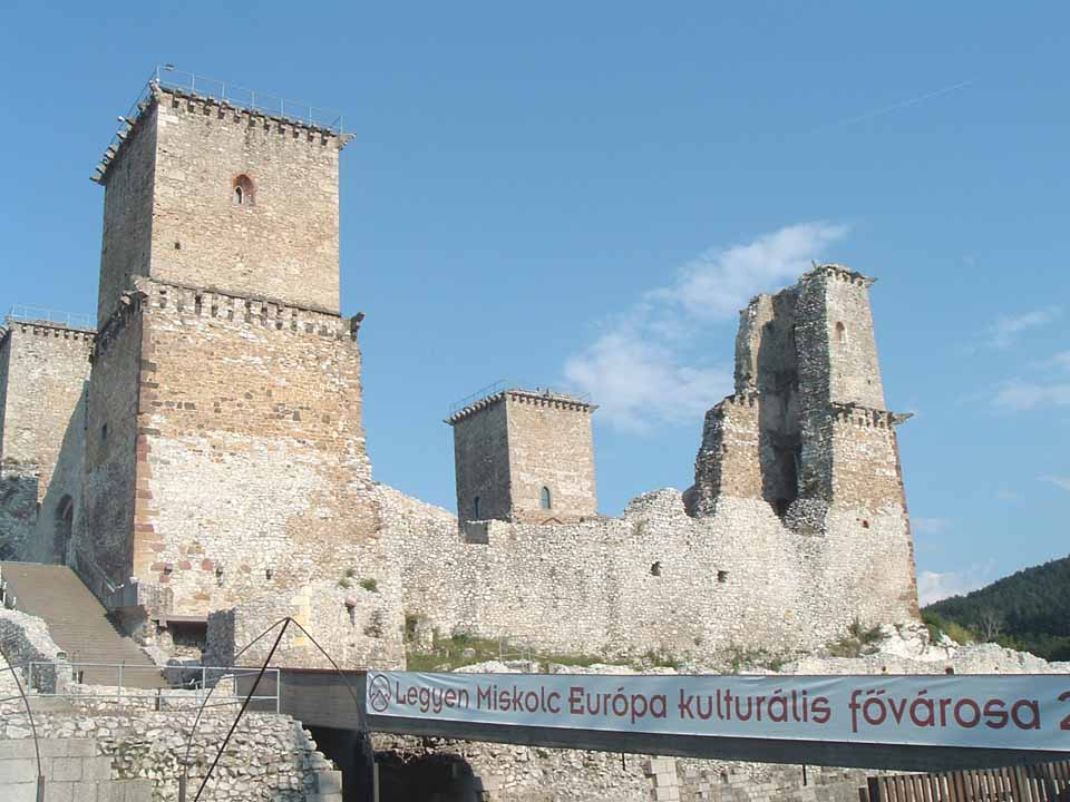 The castle of Diósgyőr in Miskolc, Hungary